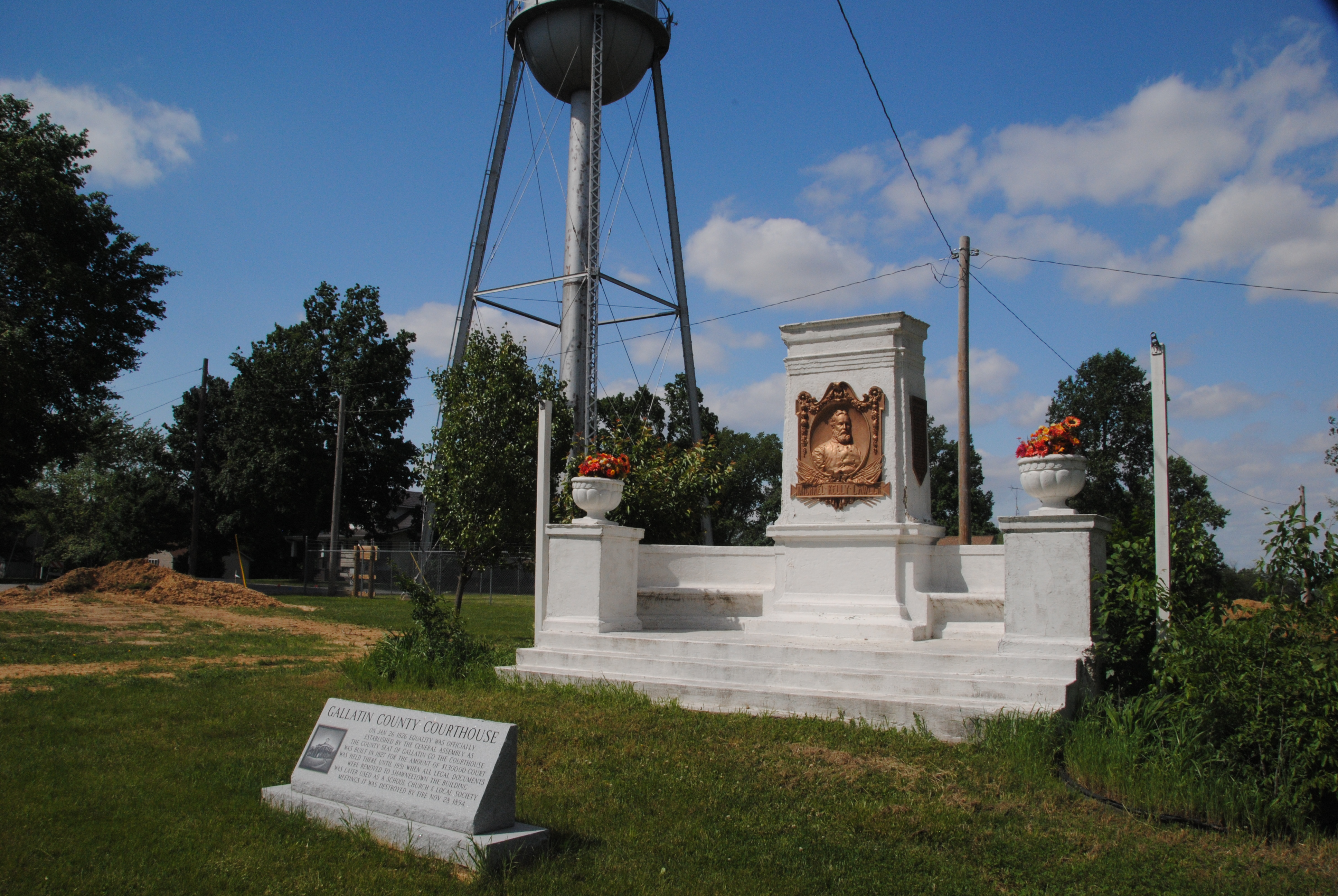 Monument of General Michael Lawler in Equality, Illinois